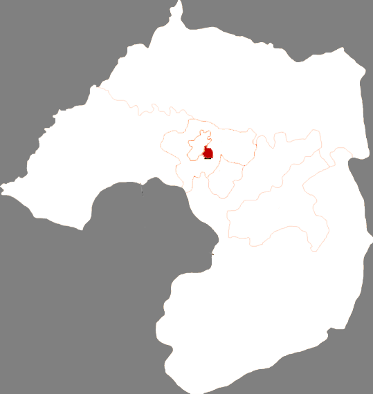 Location of Wensheng district in Liaoyang City, China